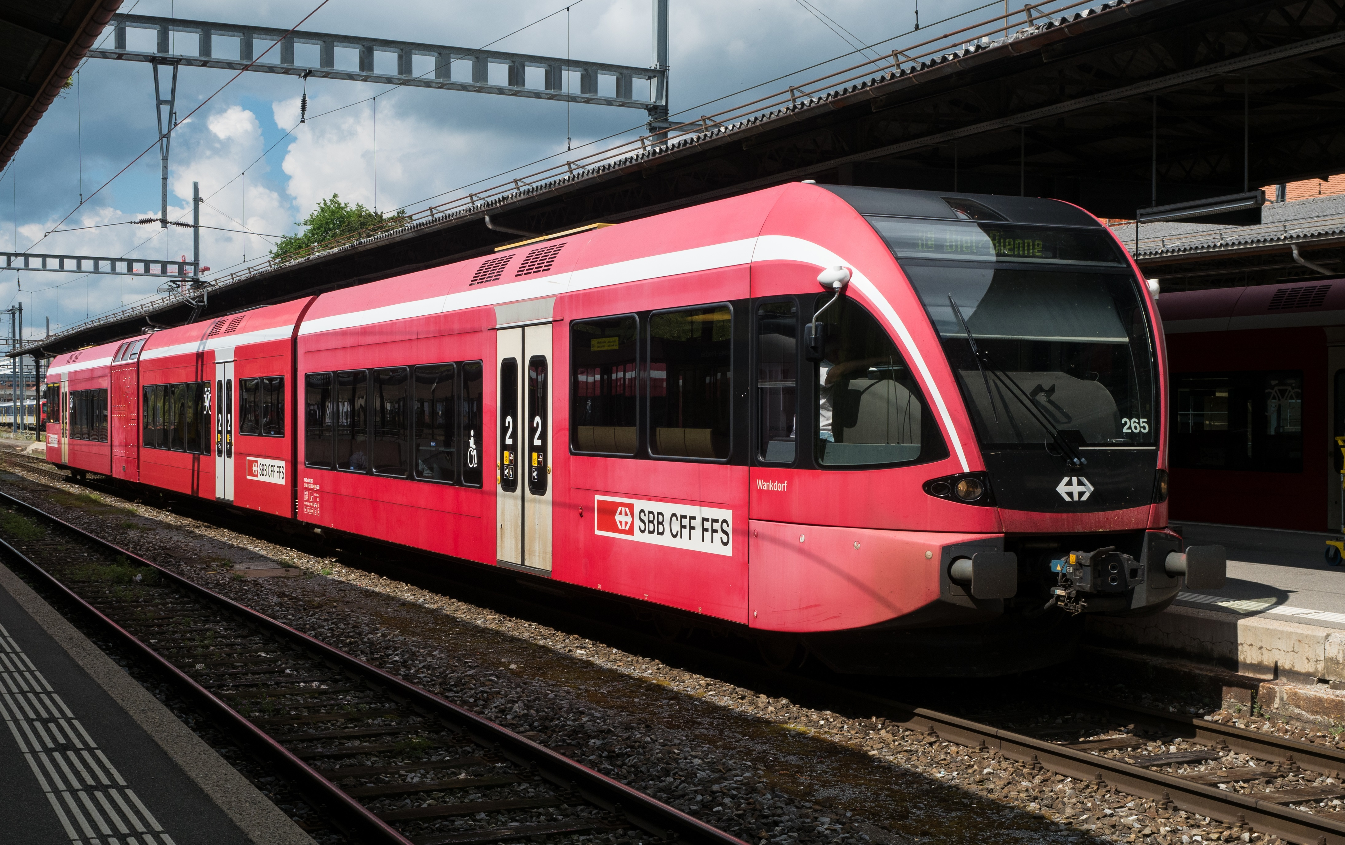 TRANSJURA 26.07.2016